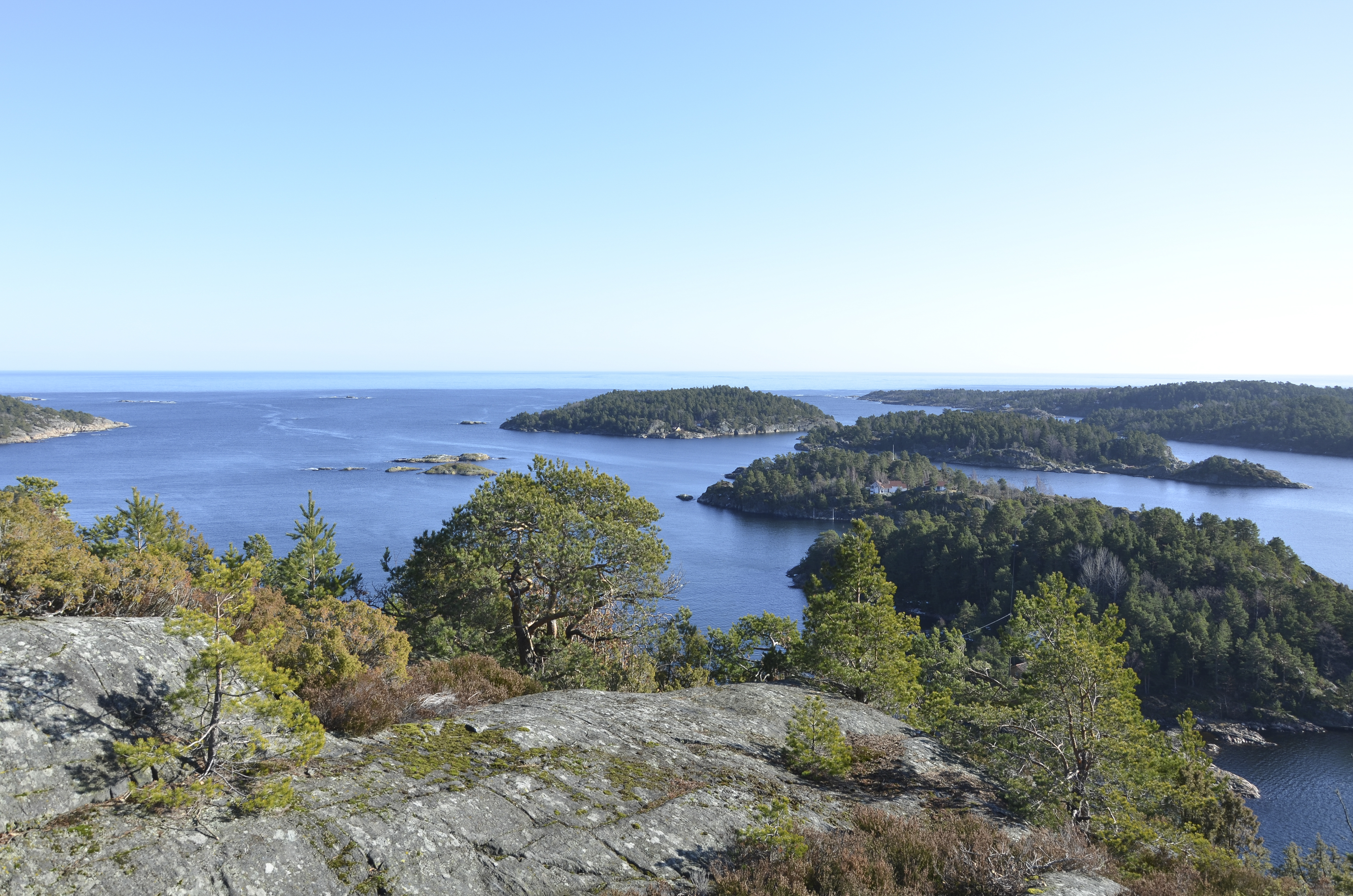 South view of the skerries in Risør, Norway. The fjord is the Sandnes fjord and the visible islands are (nearest to farthest) Langholmen, Bukkholmen, Little Furuøy og Big Furuøy.